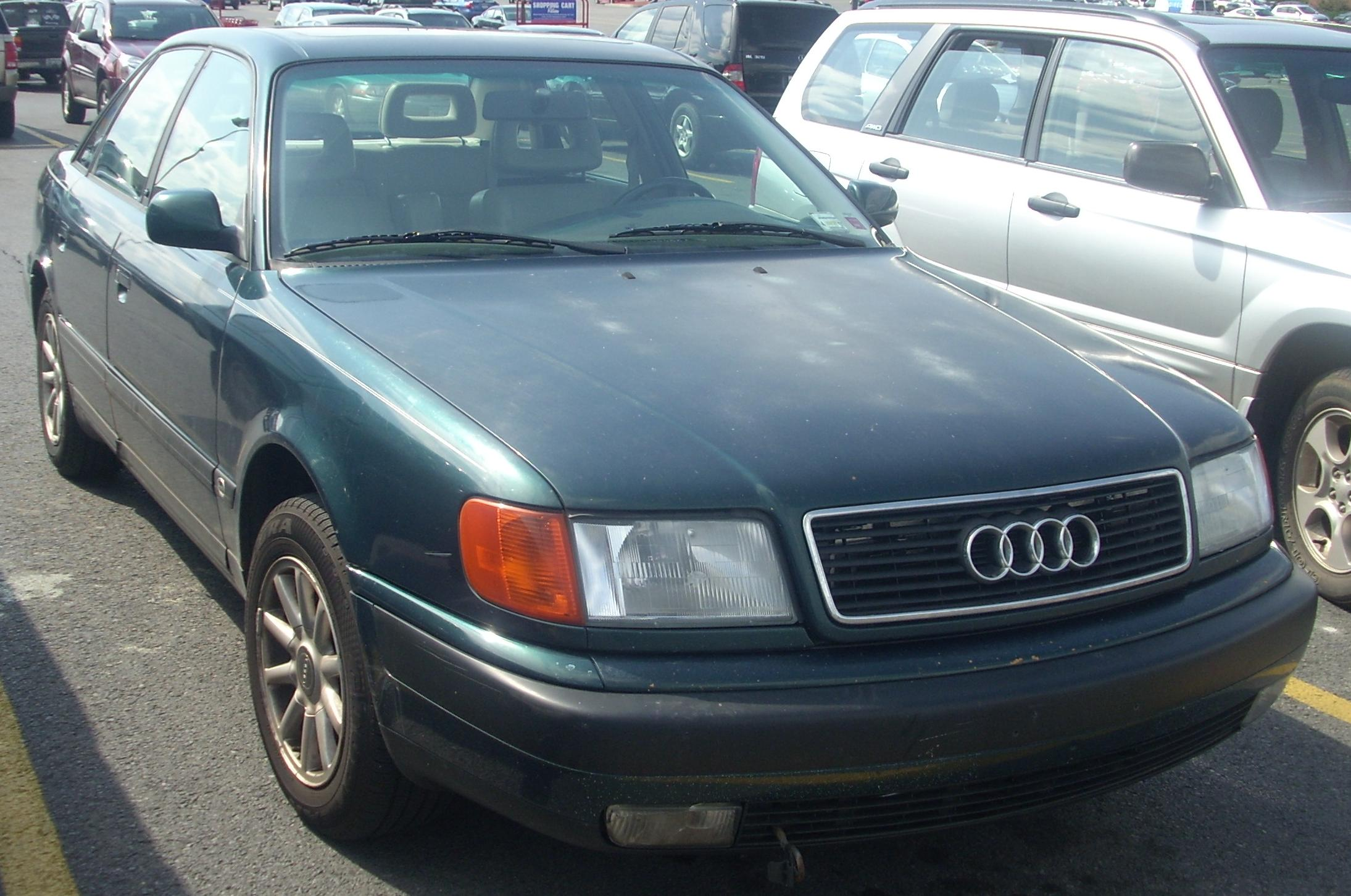 1992-1994 Audi 100 photographed in Plattsburgh, New York, USA.